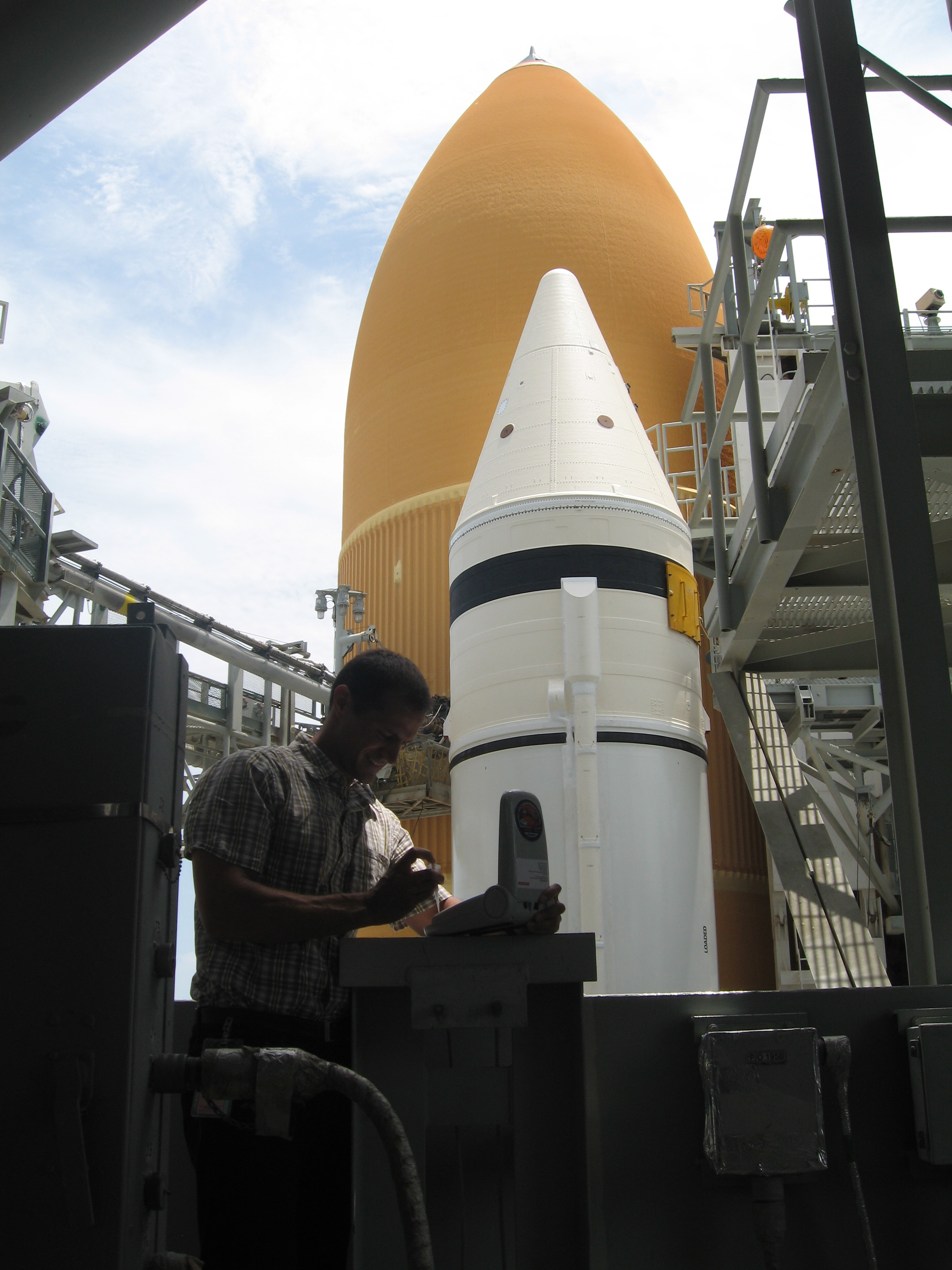 LOCAD-PTS Exploration Principal Investigator Dr Jake Maule uses LOCAD-PTS to perform a microbial survey of Pad 39A following the arrival of Space Shuttle Discovery (STS-128).